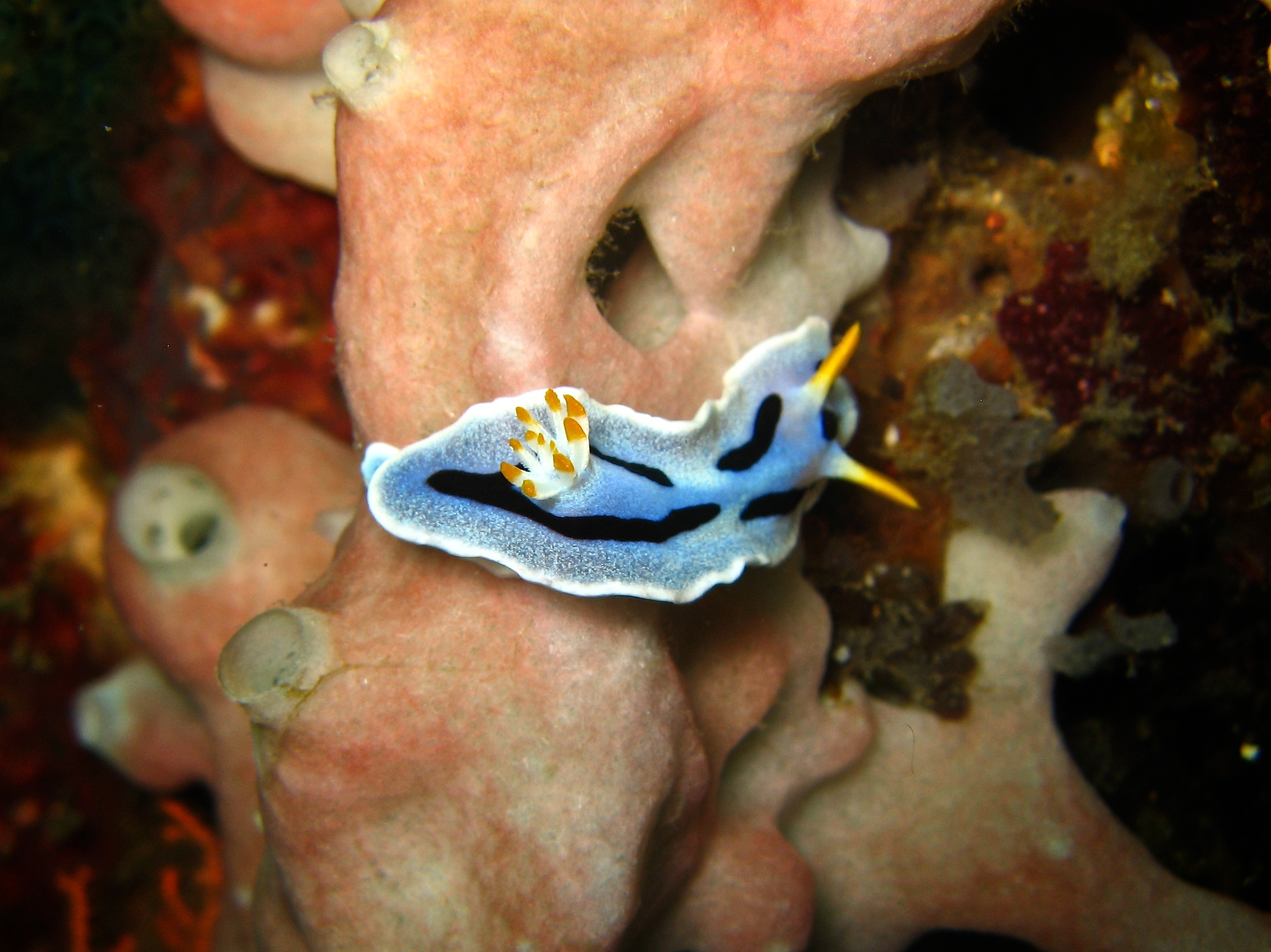 Chromodoris dianae at The Drop Off divesite, Verde Island, Puerto Galera, The Philippines.